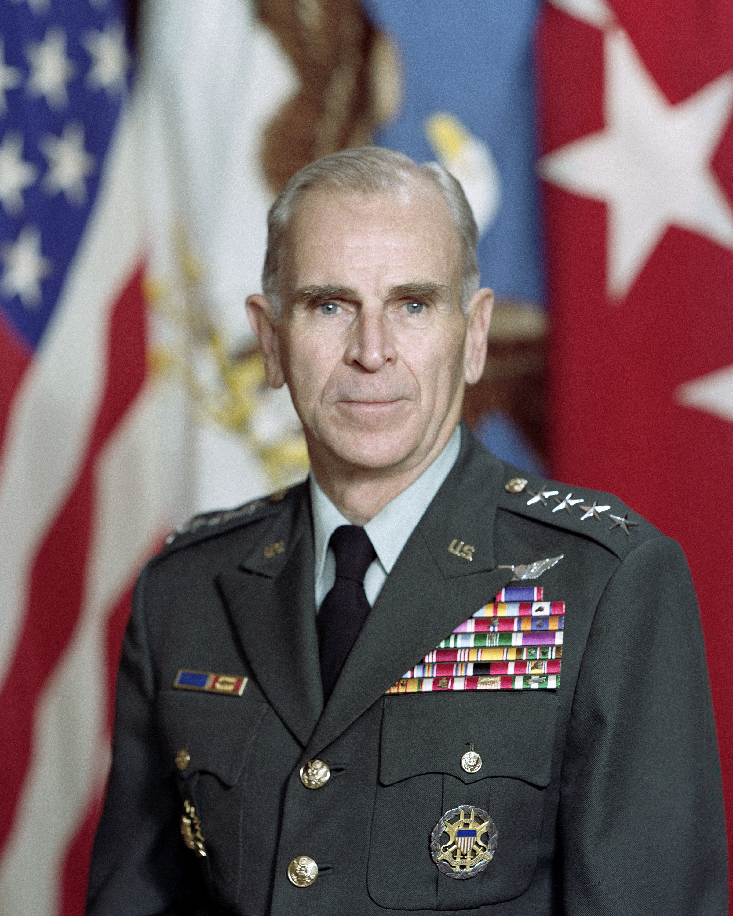 U.S. Army General John W. Vessey, Jr., Chairman of the Joint Chiefs of Staff